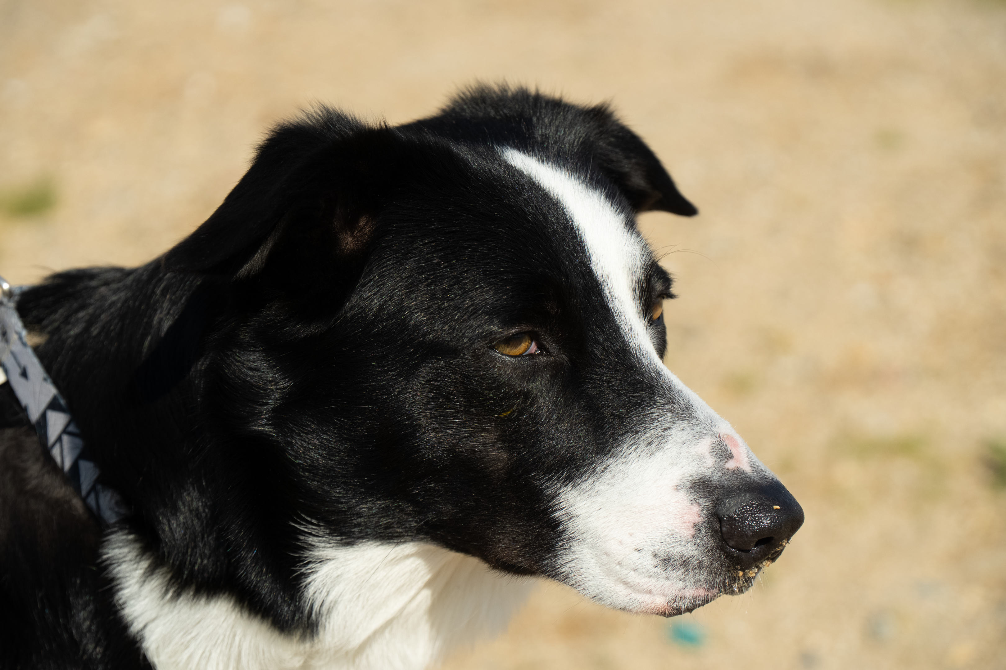 Black and white Border Collie, looking bored but alert